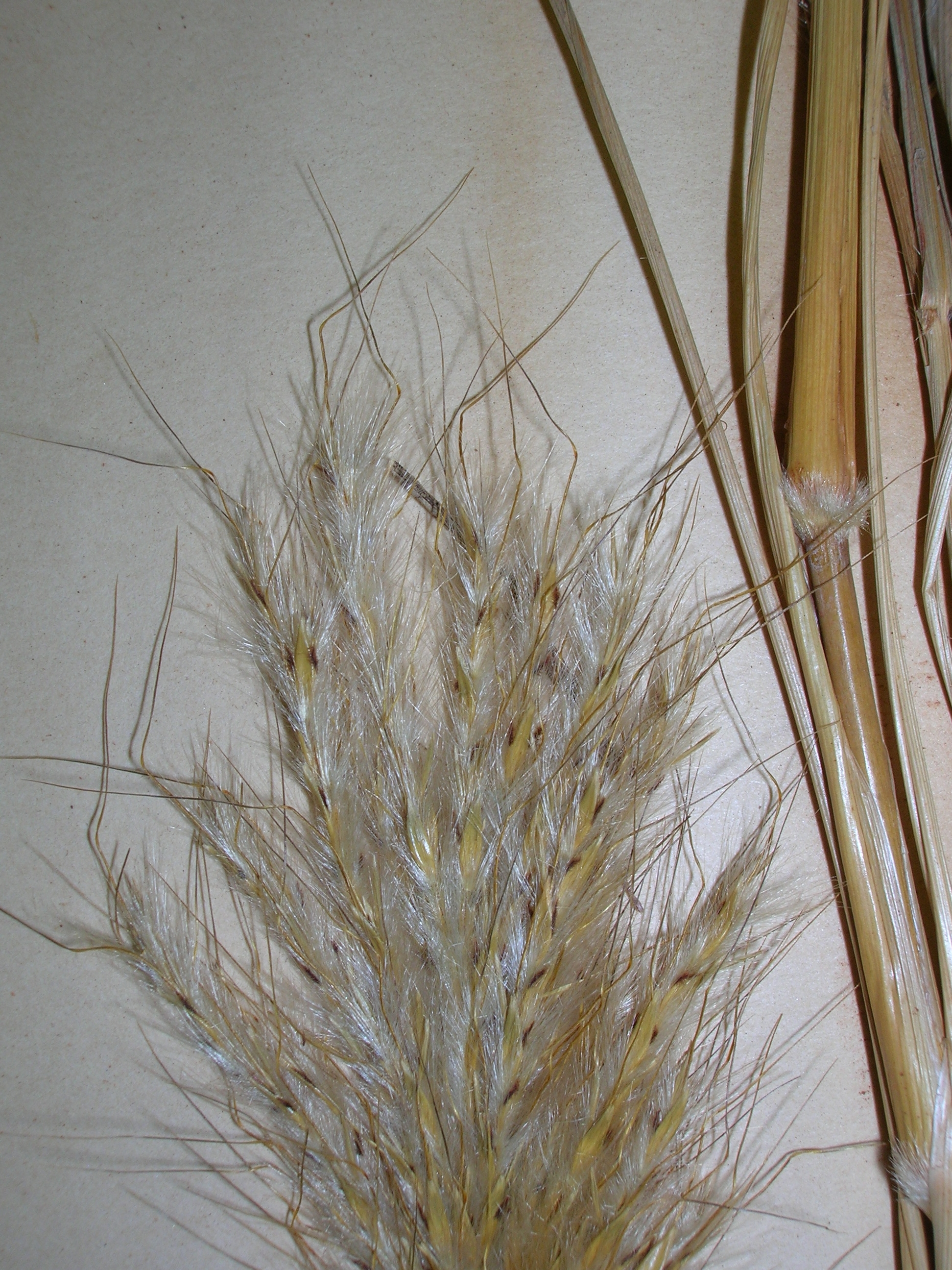 Bothriochloa barbinodis (BISH specimen). Location: Molokai, Unknown location